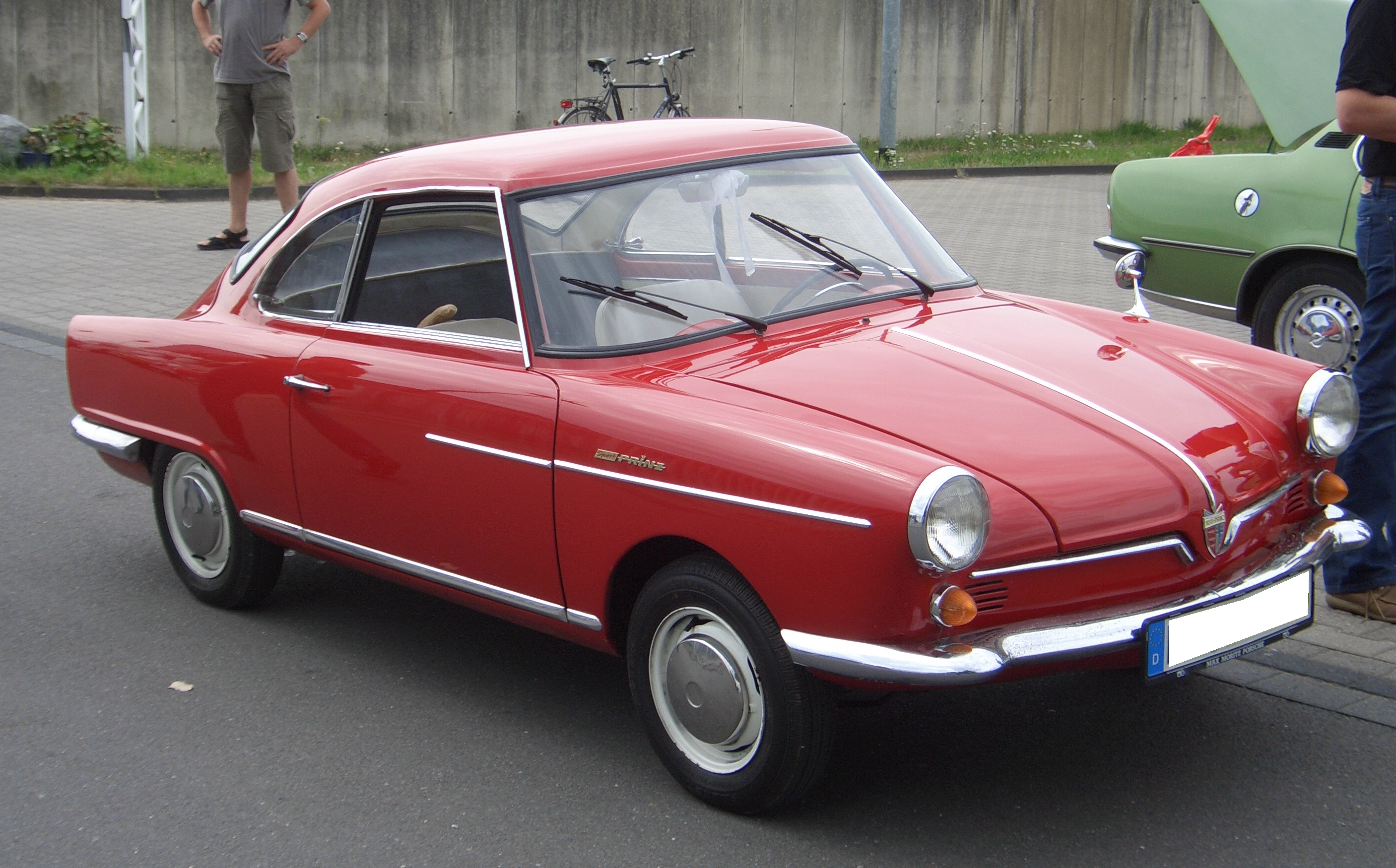 NSU Sportprinz, 1958-1967, seen at vintage car meeting in Leverkusen, Germany, August 2008